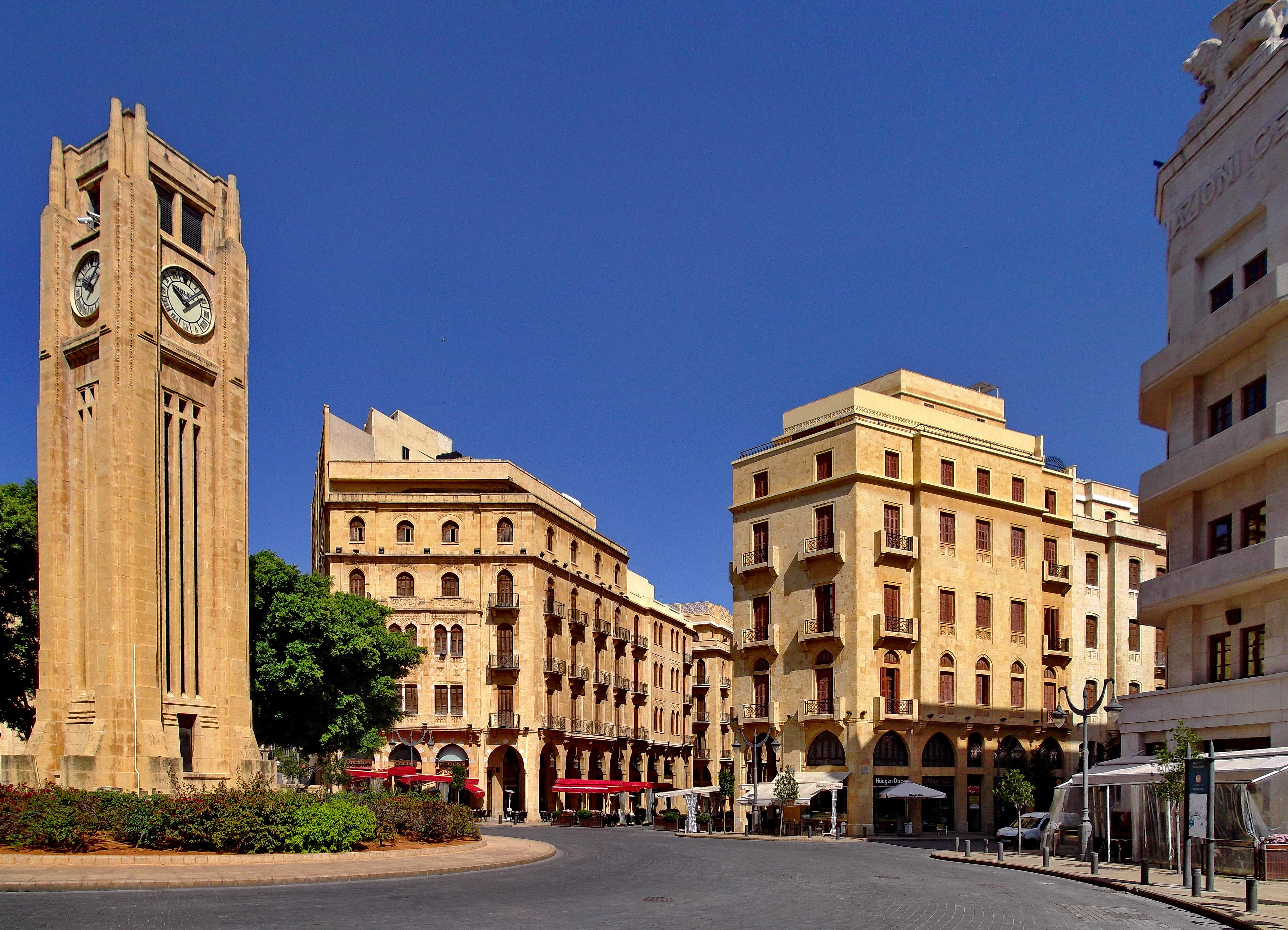 Beirut, Central District, Nejmeh Square with Hamidiyi Clock Tower (Picture taken March 2013)